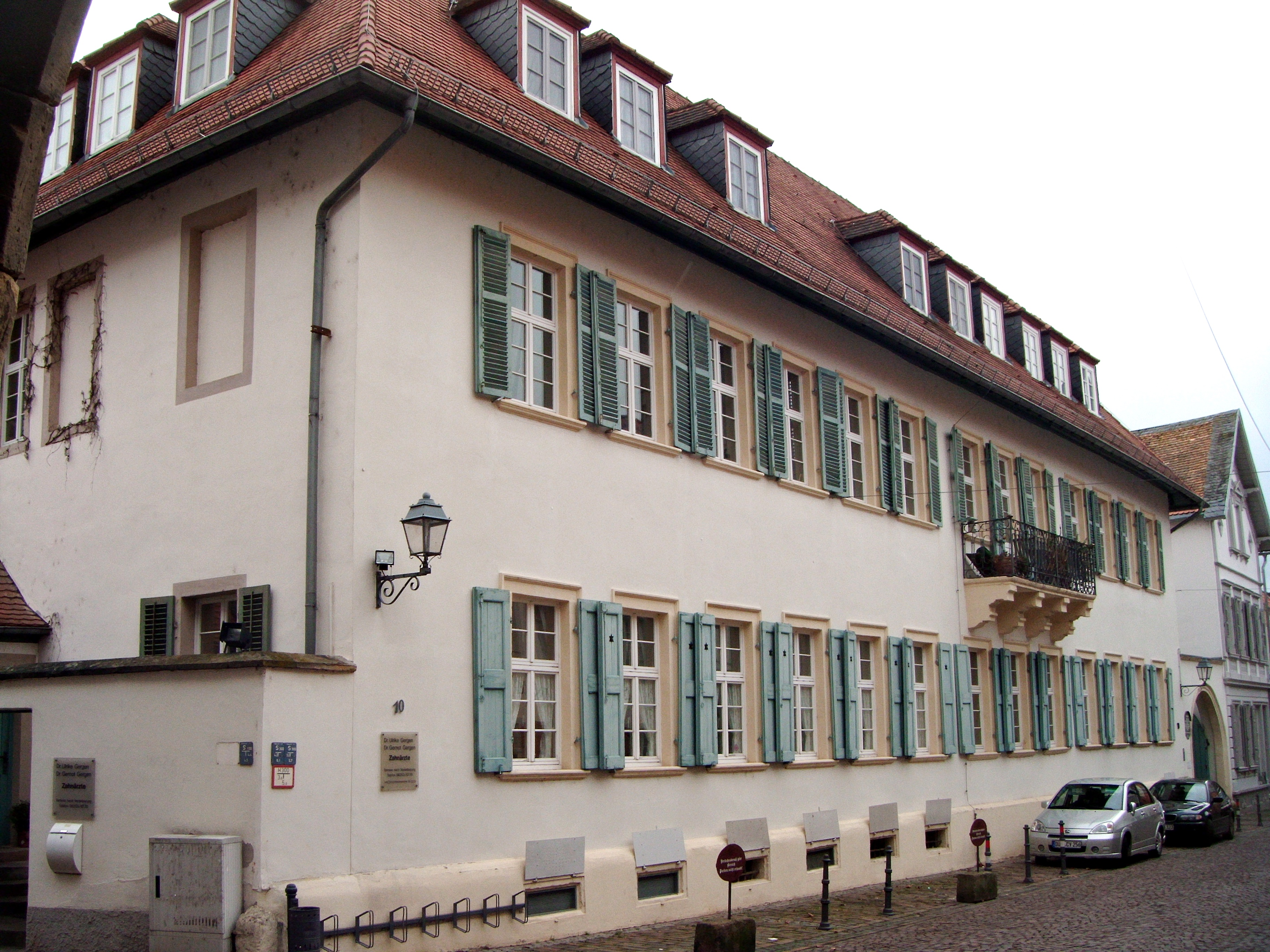 Freinsheim, Herrenstraße 10, Retzerhaus